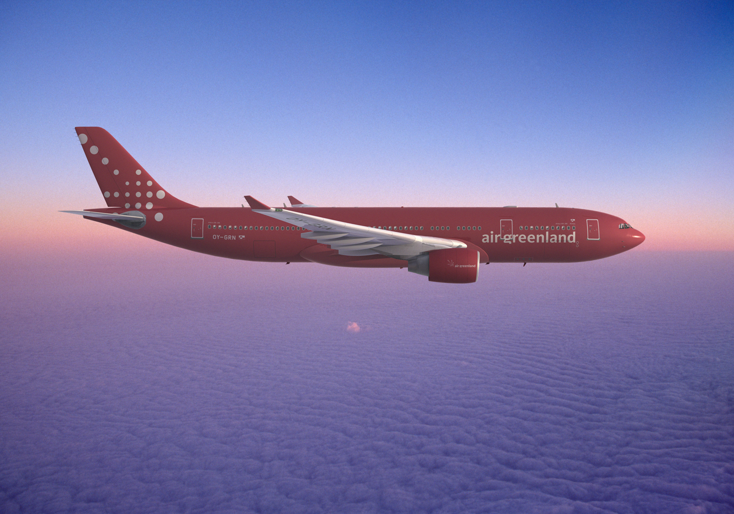 AirGreenland Airbus